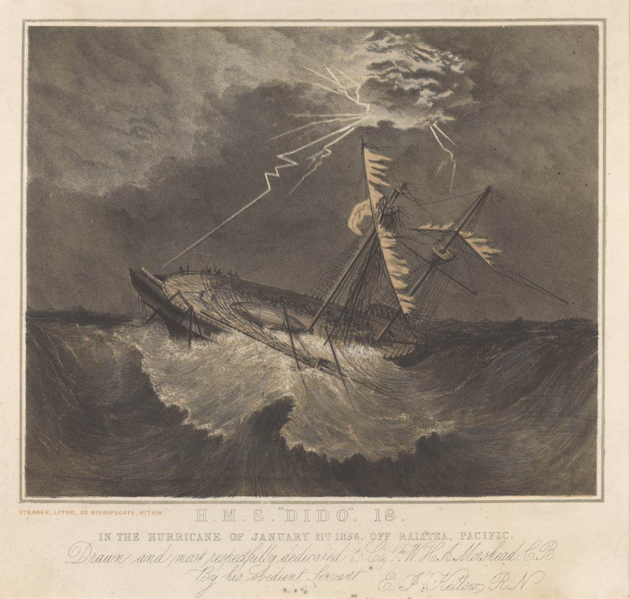 H.M.S. Dido, 18. In the hurricane of January 21st 1856 off Raiatea, Pacific... Hand-coloured.